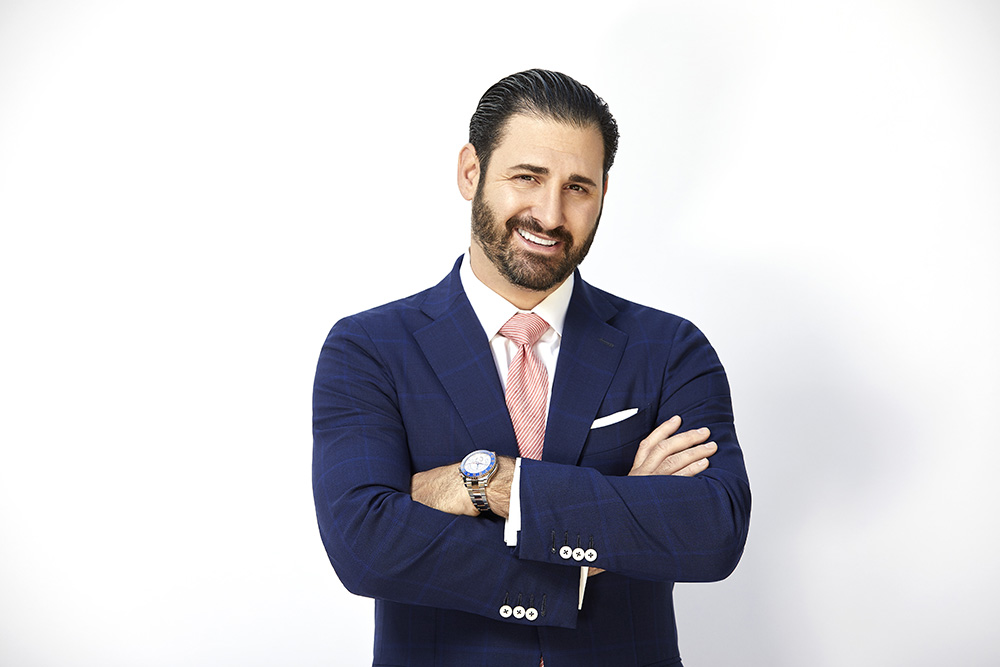 Photo of Dave Cantin